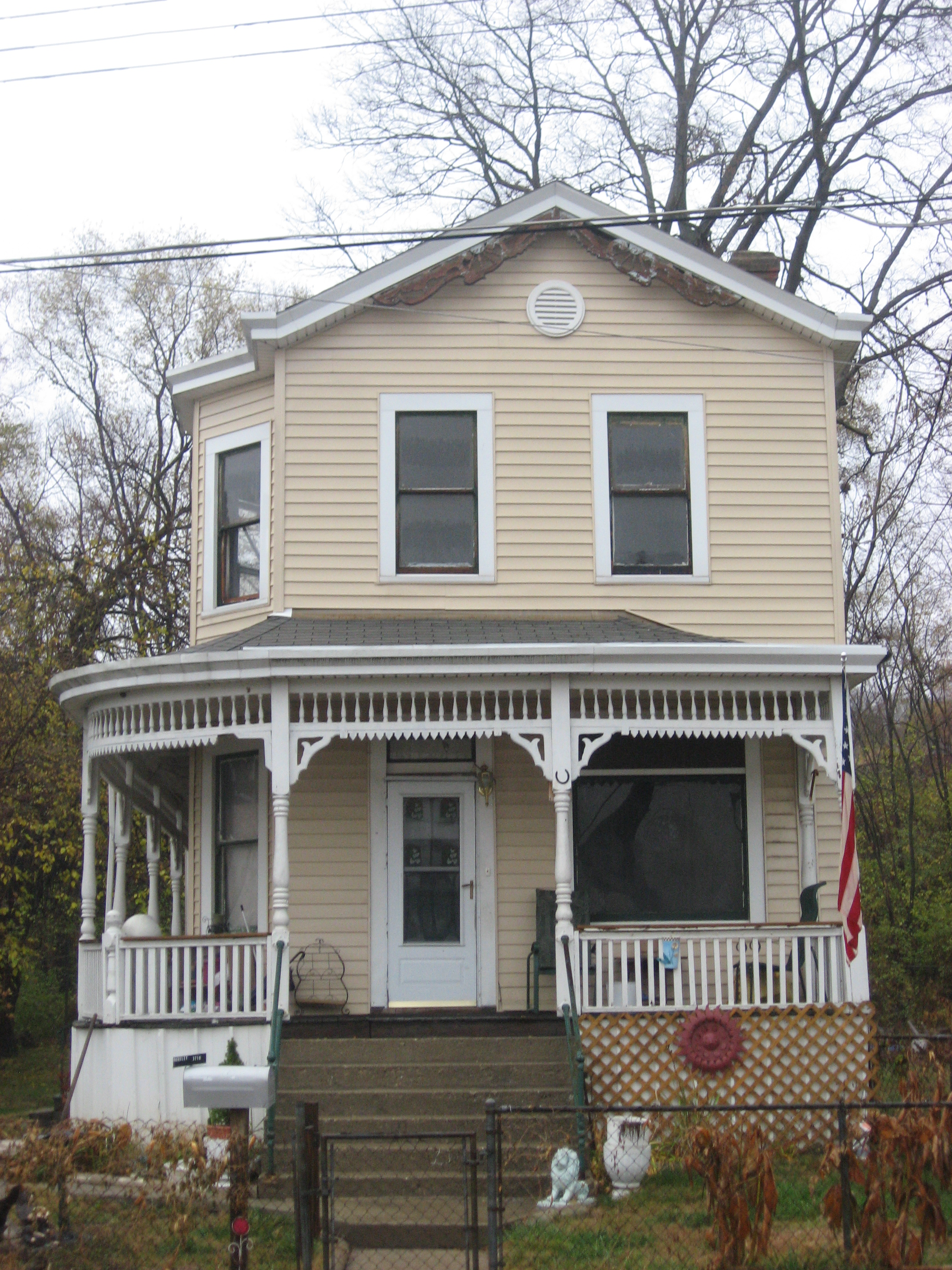 Front of the LuNeack House, located at 3718 Mead Avenue in the Columbia-Tusculum neighborhood of Cincinnati, Ohio, United States. Built in 1894, it is listed on the National Register of Historic Places.